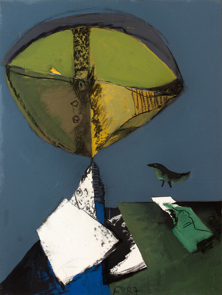 Happiness 2